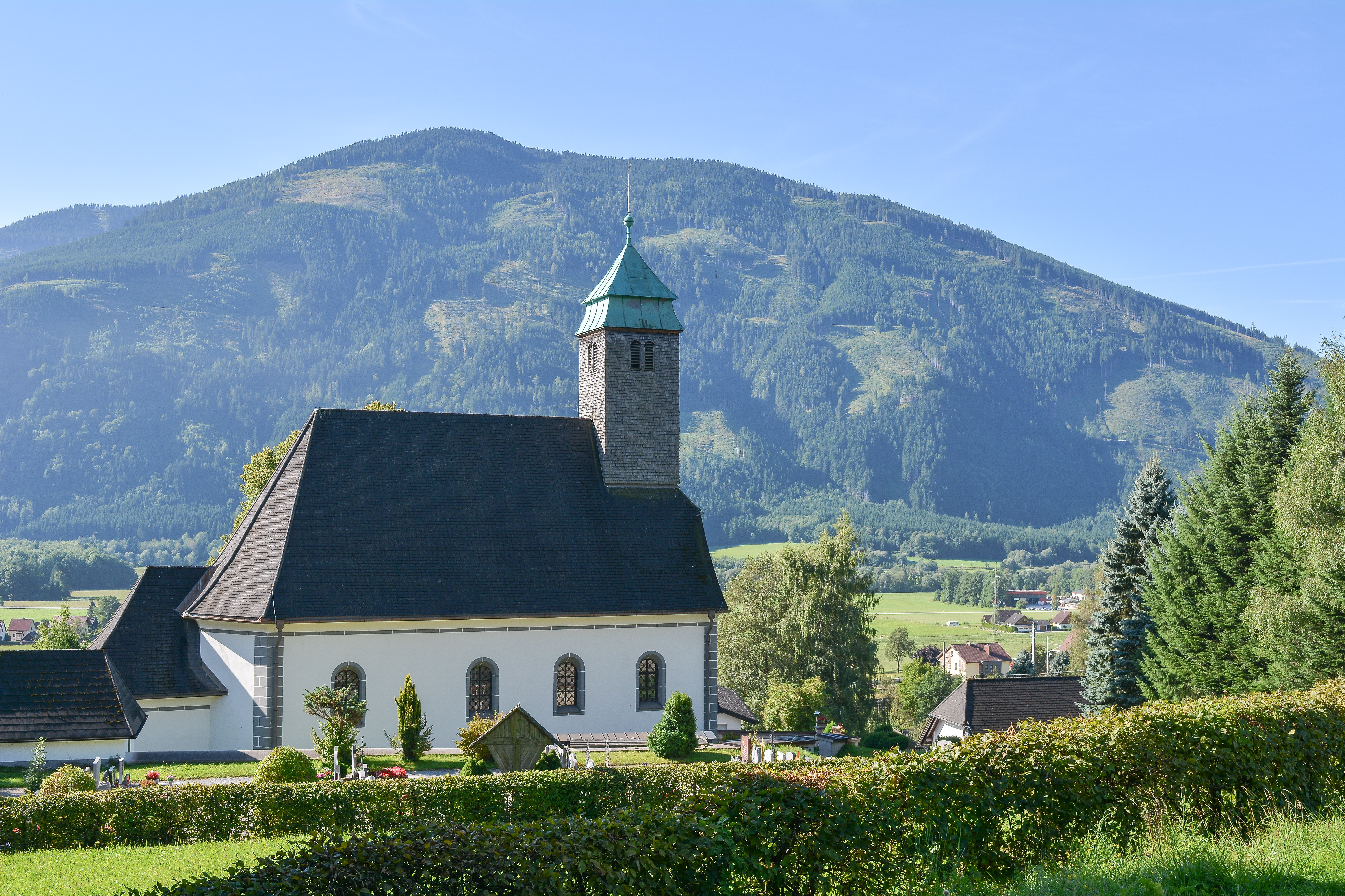 The catholic parish church of Ardning is surrounded by the cemetery.